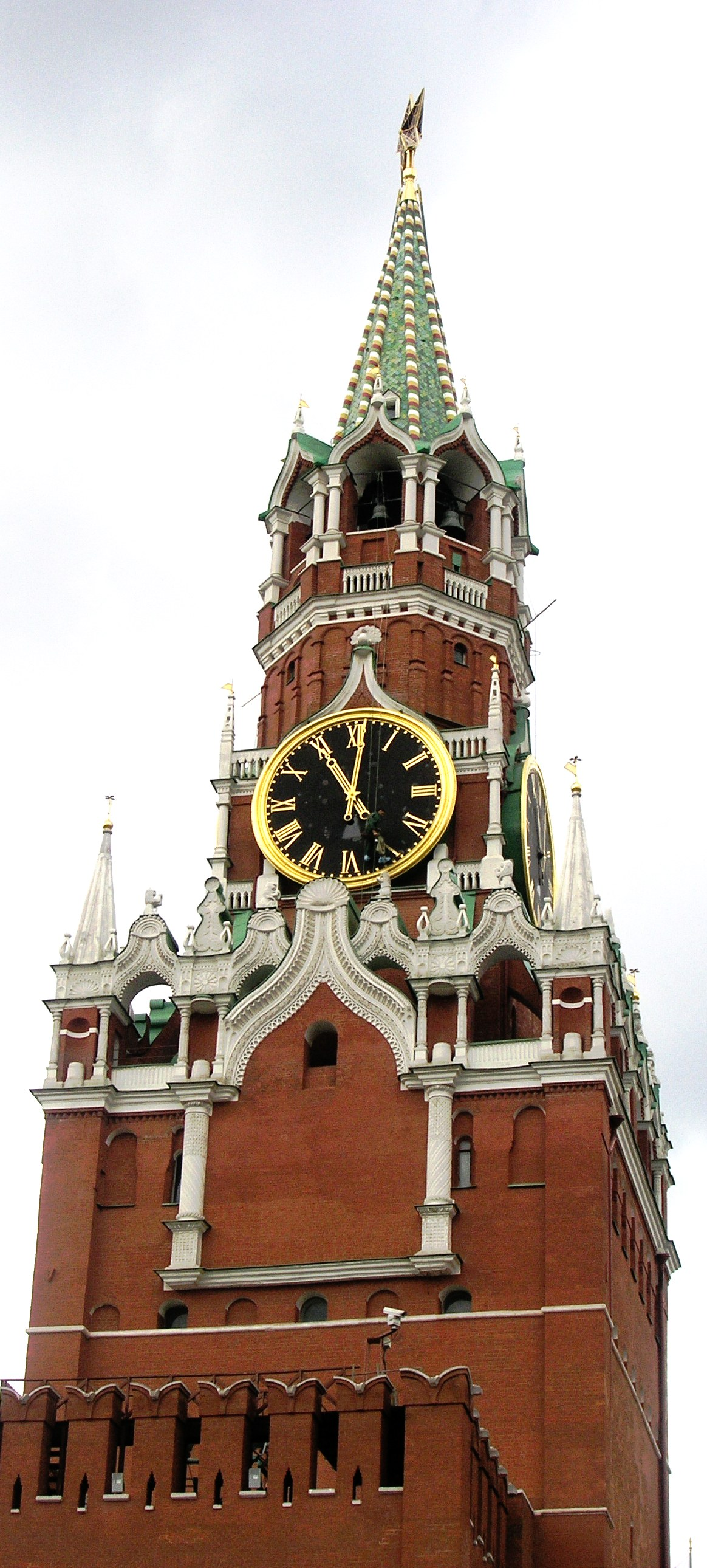 Spasskay tower, the clock is being worked on